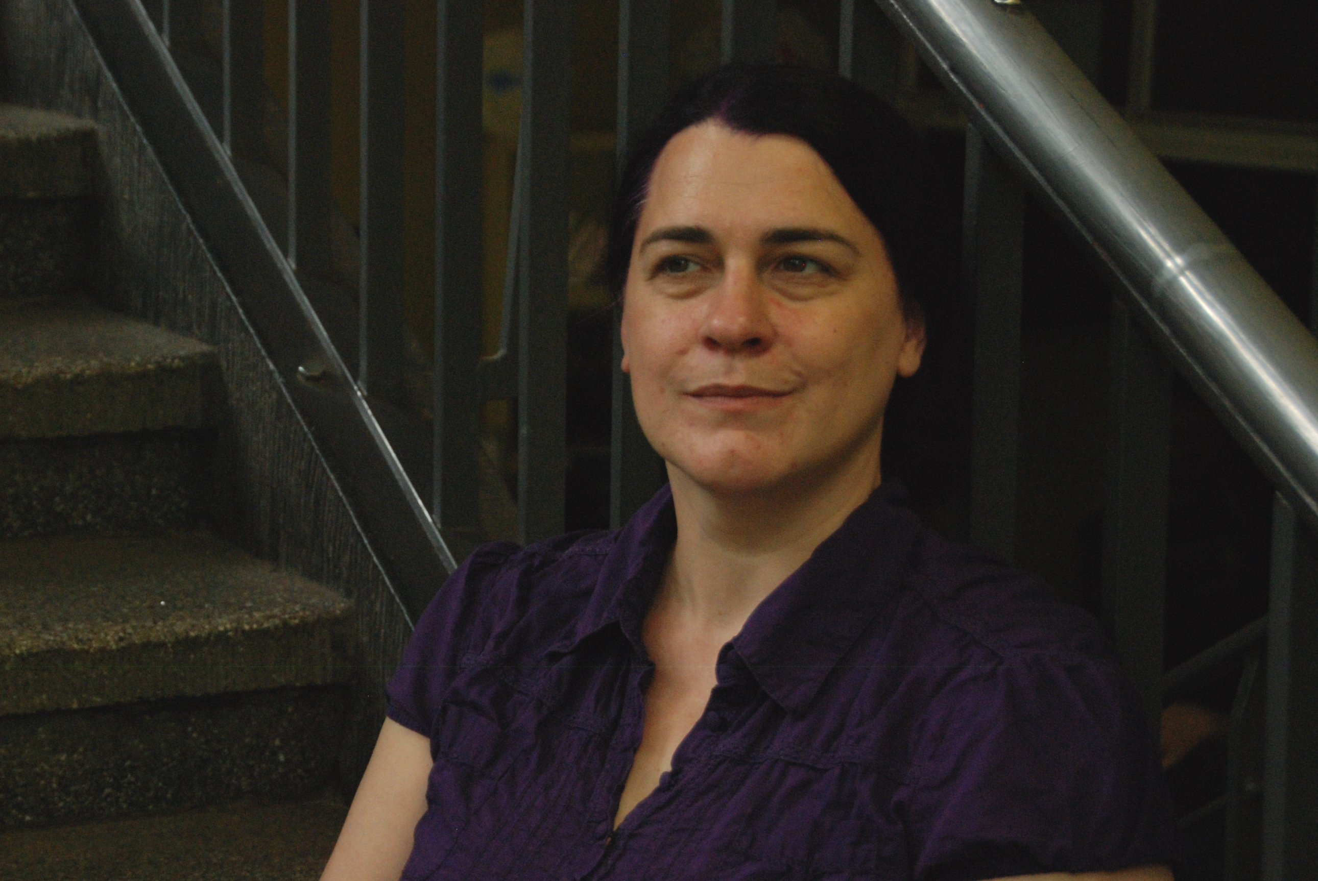 German author Lena Falkenhagen.